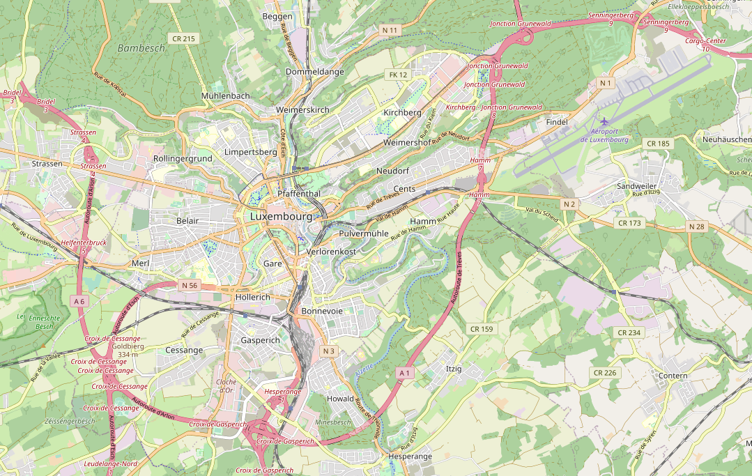 Map of Luxembourg-city with the Luxembourg airport at Findel.